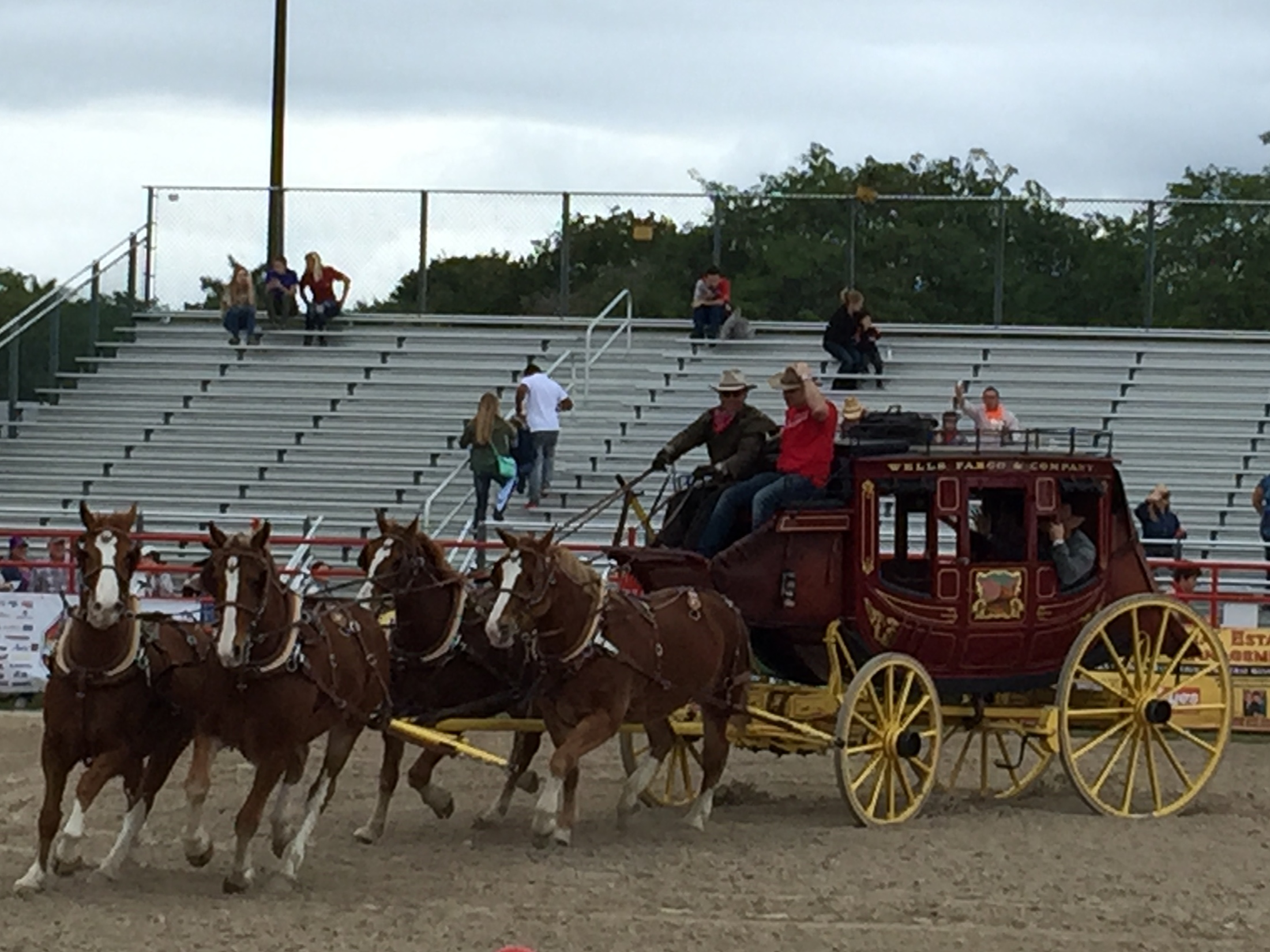 Wells Fargo Horse Carriage Miami Florida